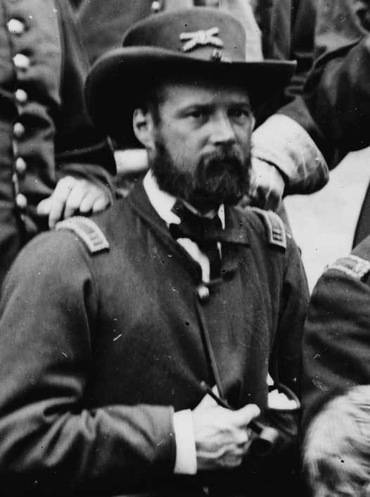 Captain Horatio Gates Gibson, Combined Batteries C & G, 3rd U.S. Artillery.